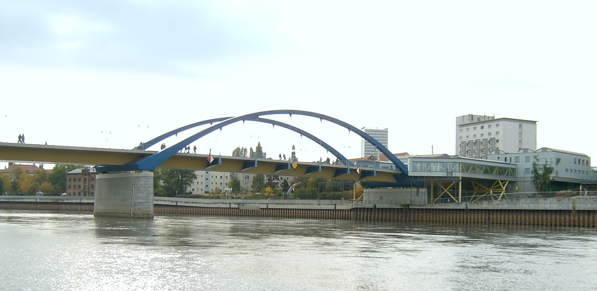 border crossing Słubice - Frankfurt (Oder).